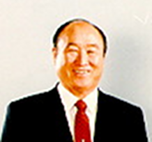 Sun Myung Moon, late leader of the Unification Church